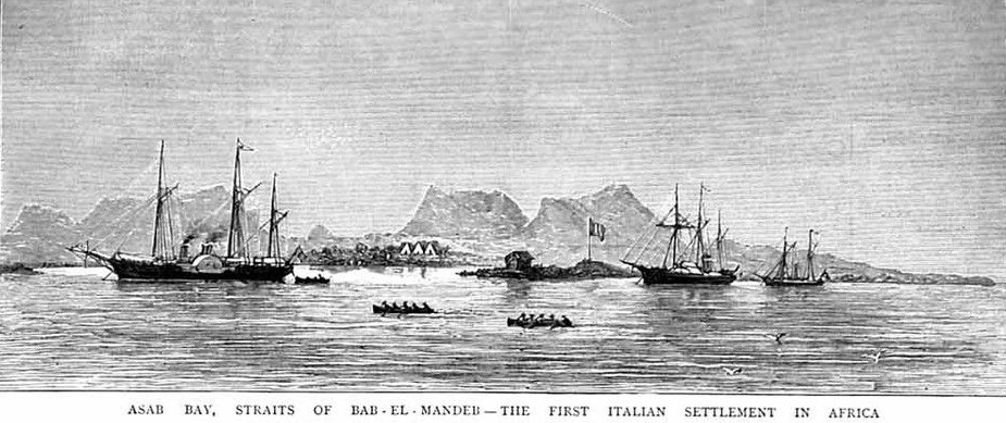 View of the newly-established Italian settlement at Assab, in what was to become Italian Eritrea. Assab Bay was purchased from a local sultan by the Italian navigation company Rubattino in 1869, but the first settlement was established only early 1880. The Italian government acquired Assab in 1882. Engraving in the 28 February 1880 issue of the British weekly The Graphic.